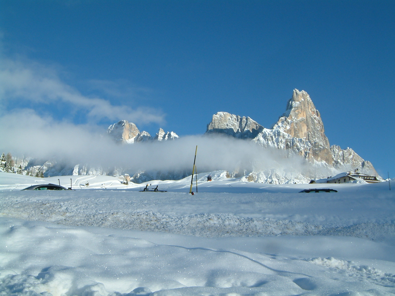 The Passo Rolle in Winter